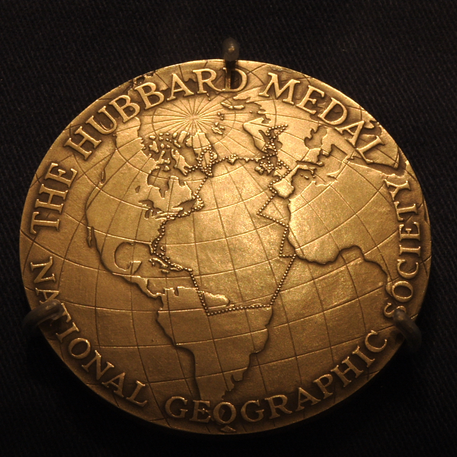 Hubbard Medal, National Geographic Society. Awarded to Anne Morrow Lindbergh in 1934. This medal is on exhibit at the Missouri History Museum, St. Louis, Missouri.